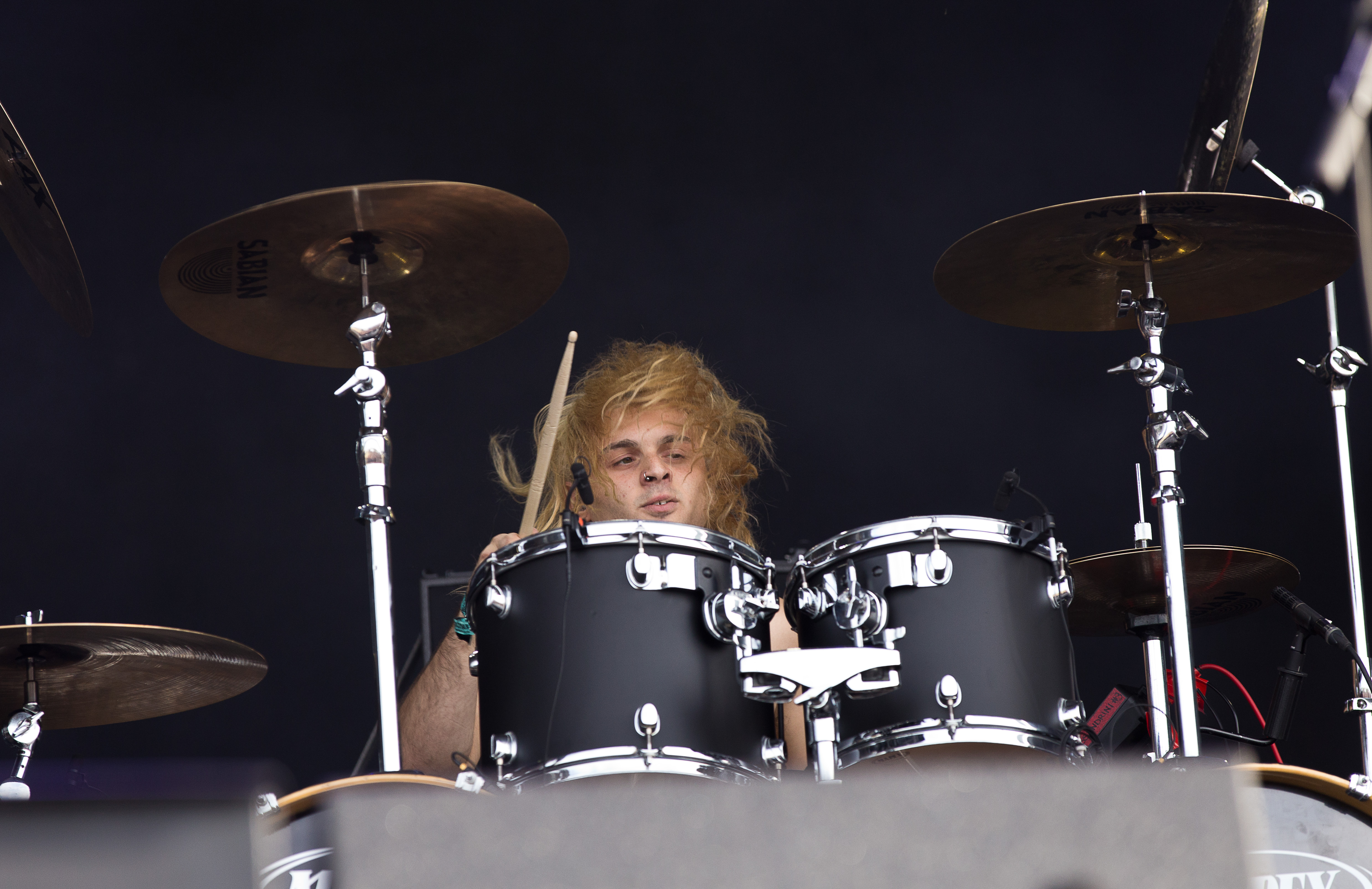 The Canadian thrash metal band Annihilator at the Rockharz Open Air 2016 in Ballenstedt/Germany.